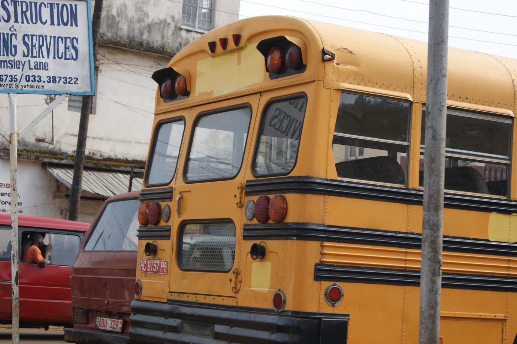 Freetown, Sierra Leone